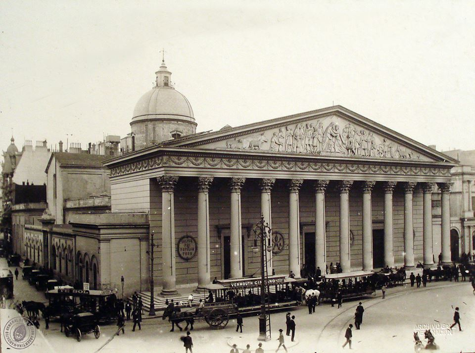 Exterior of the Catedral Metropolitana de Buenos Aires during an Easter celebration on Sunday